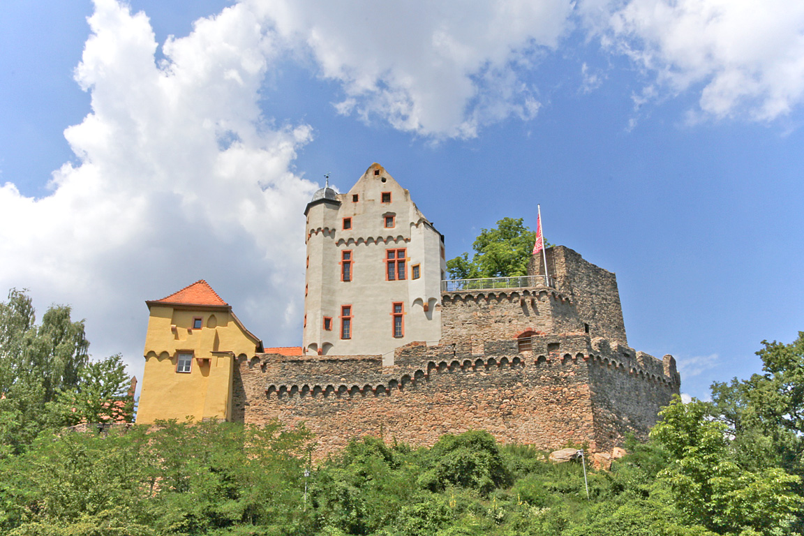 Alzenau Castle, historic building, near Aschaffenburg, Bavaria/Germany